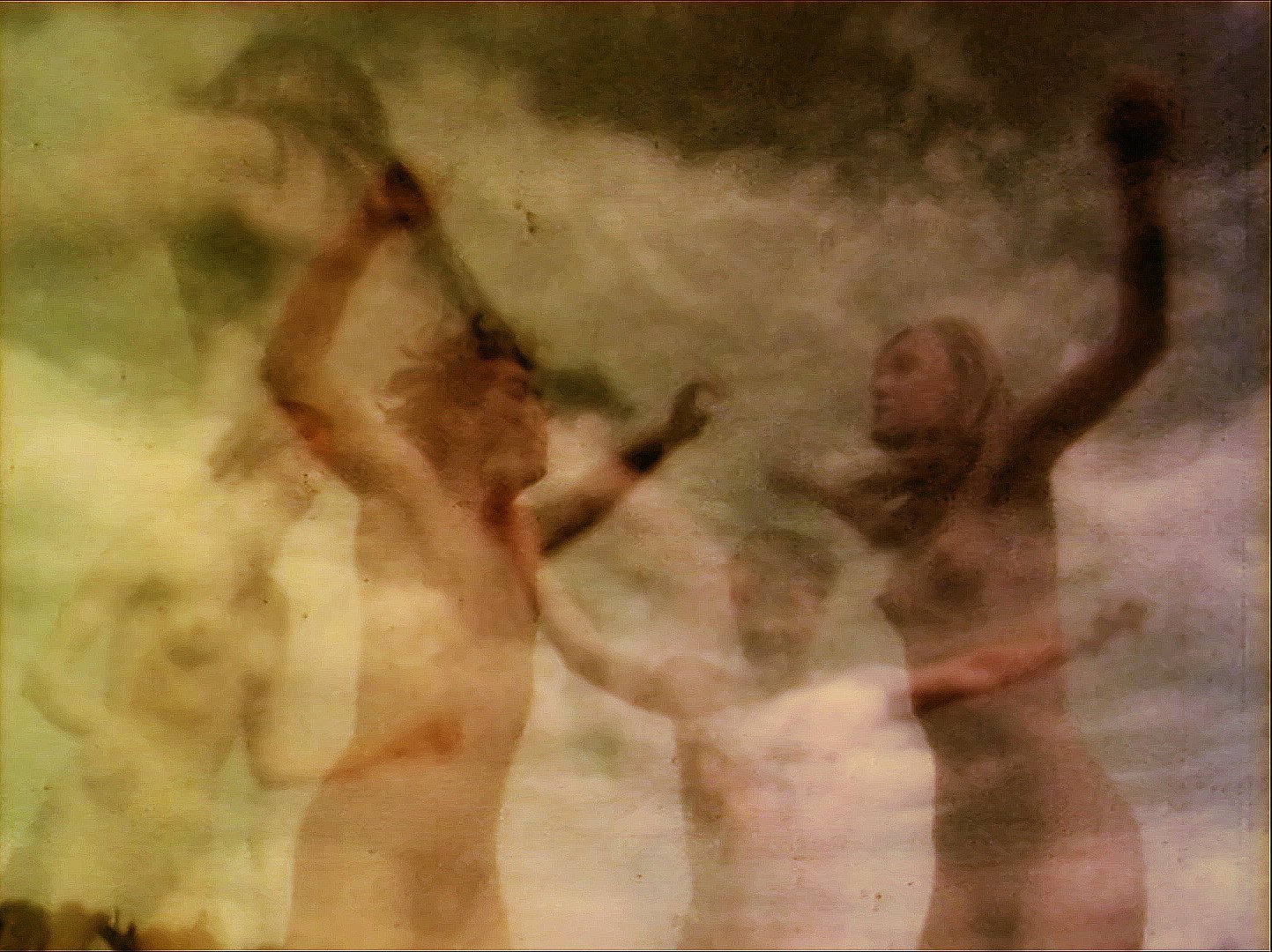 Frame from the film "LAST LOVE"